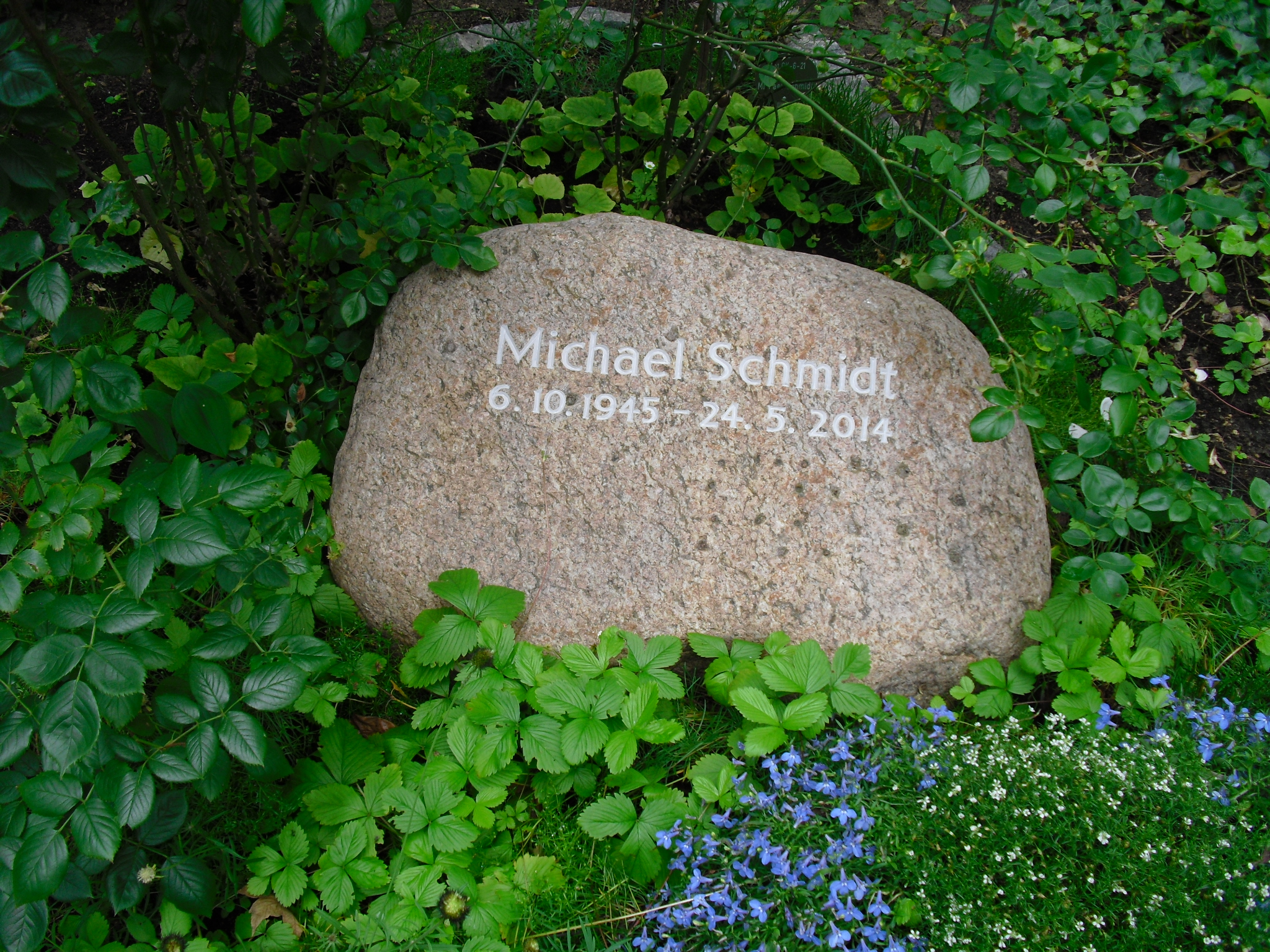 Grave of German photographer Michael Schmidt in Friedhof der Dorotheenstädtischen und Friedrichswerderschen Gemeinden in Berlin-Mitte